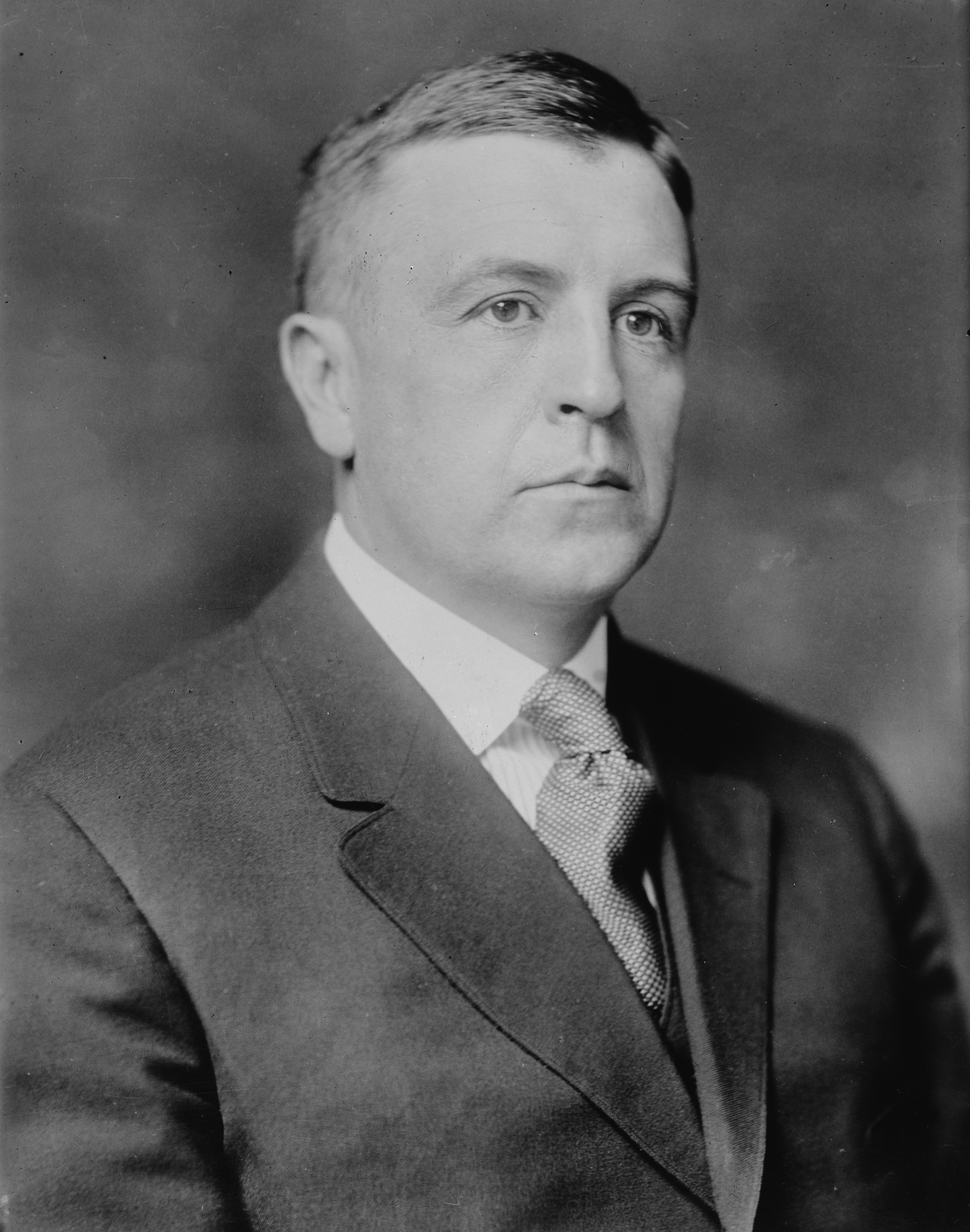 From the Library of Congress